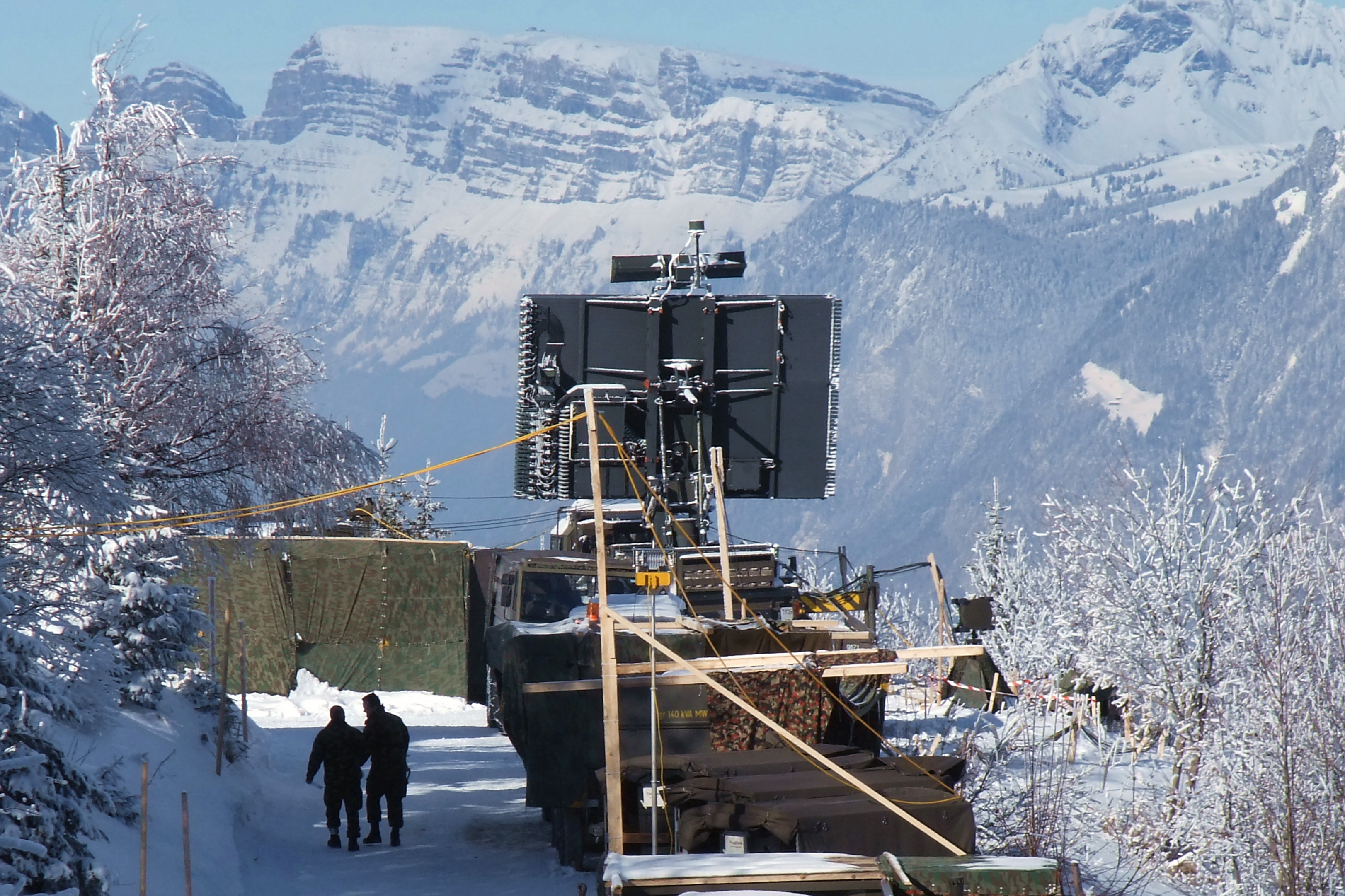 This mobile radar of type TAFLIR is used here in the so-called WEF support mission above Pfäfers, Switzerland, Jan 23, 2011.